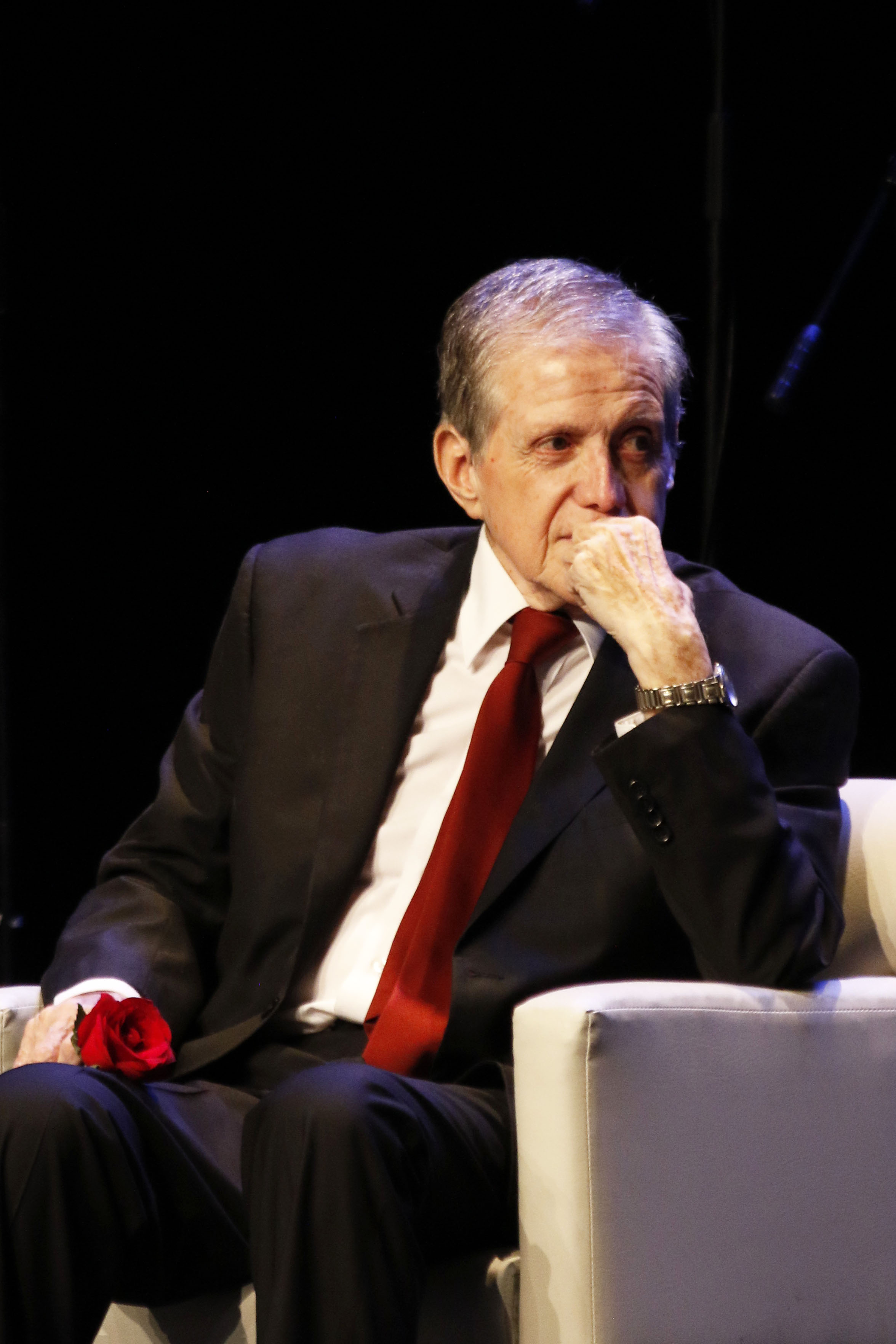 Martes 22 de octubre de 2019Teatro de la Ciudad Esperanza Iris, el Gobierno de la Ciudad de México declaró Patrimonio Cultural Vivo al productor, dramaturgo, director, actor y diputado constituyente Héctor Bonilla, por su destacada trayectoria artística de 55 años, el reconocimiento fue entregado por el Secretario de Cultura de la Ciudad de México, José Alfonso Suárez del Real y Aguilera.La celebración estuvo amenizada por la actuación de la cantante Rosy Arango y la conducción de Damián Alcazar.Fotografía: Tania Victoria/ Secretaría de Cultura de la Ciudad de México